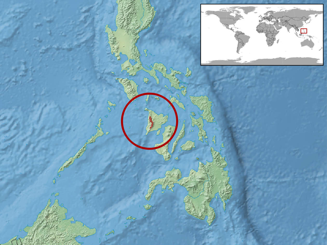 geographic distribution of Parvoscincus sisoni